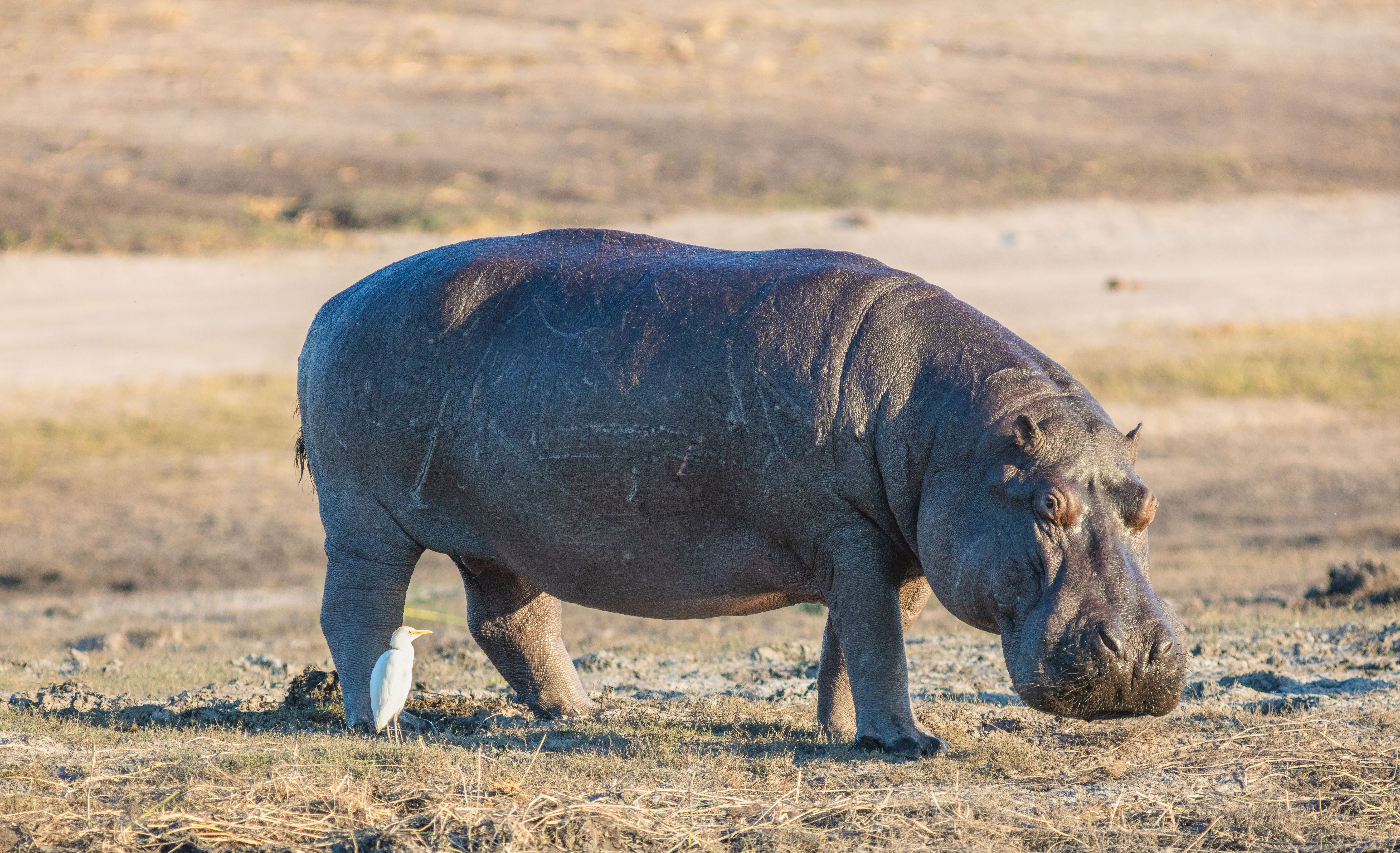 Hippo (Hippopotamus amphibius), Chobe National Park, Botswana